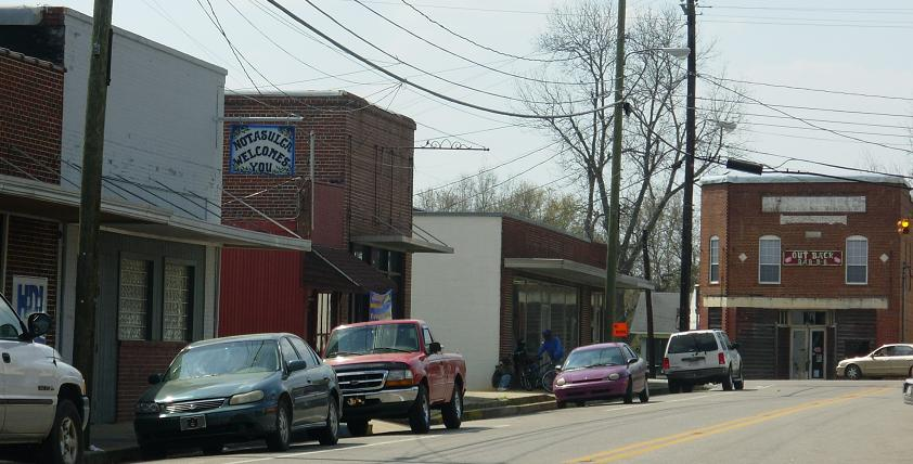 Downtown Notasulga, Alabama Rivers Langley